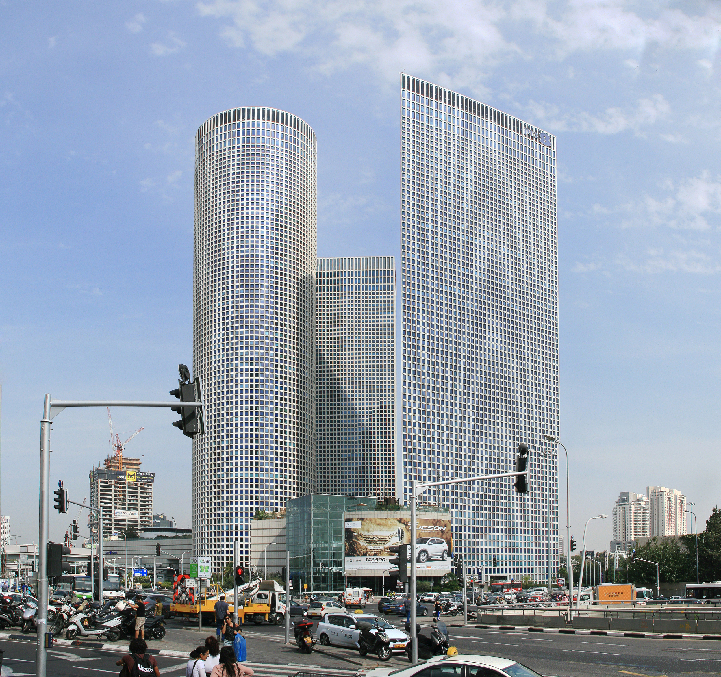 Azriely Towers, Tel Aviv, Israel